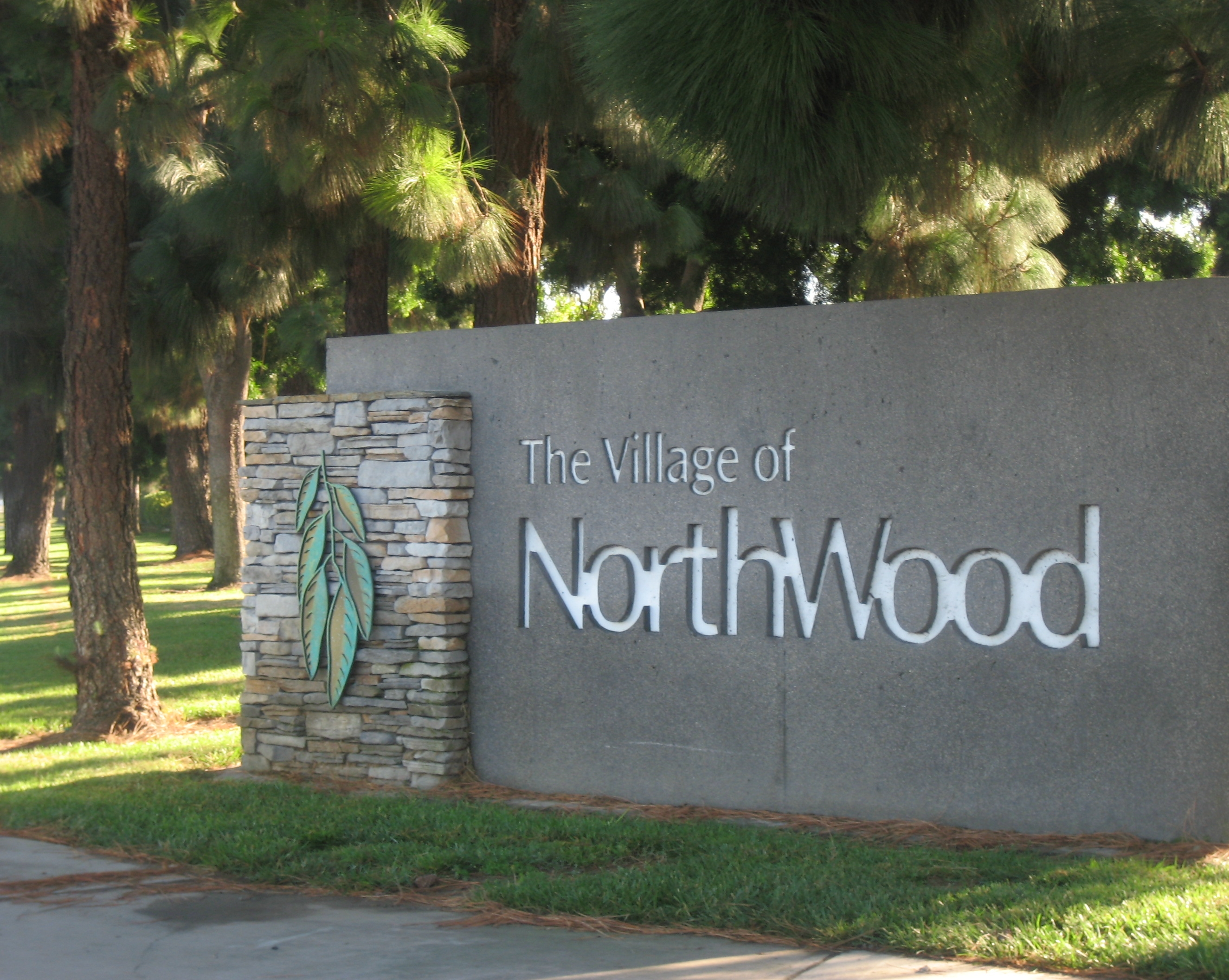 Village of Northwood sign on the corner of Culver/Bryan in Irvine, California